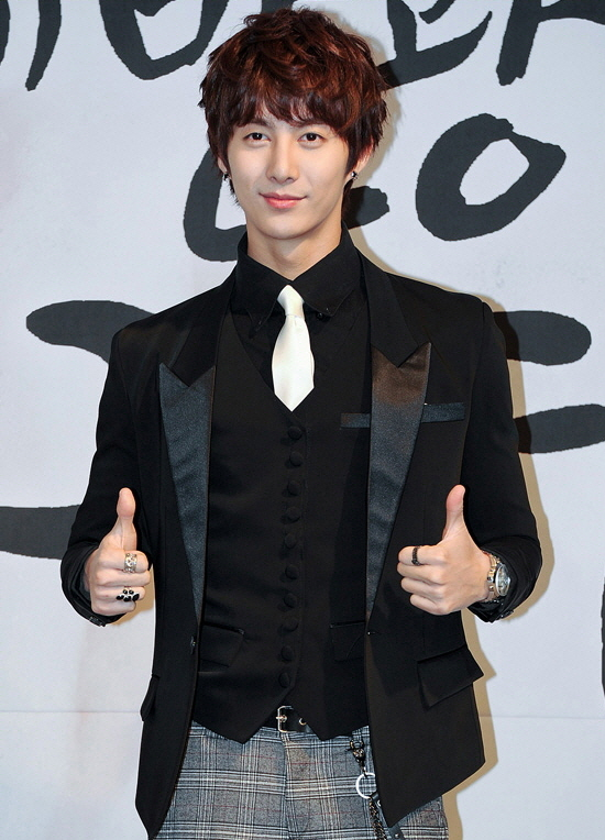 Kim Hyung-jun (SS501) at the press conference of KBS's My Shining Girl on January 4, 2012